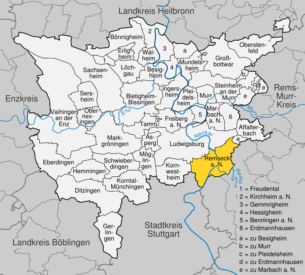 position of Remseck within distict of Ludwigsburg, Baden-Württemberg, Germany